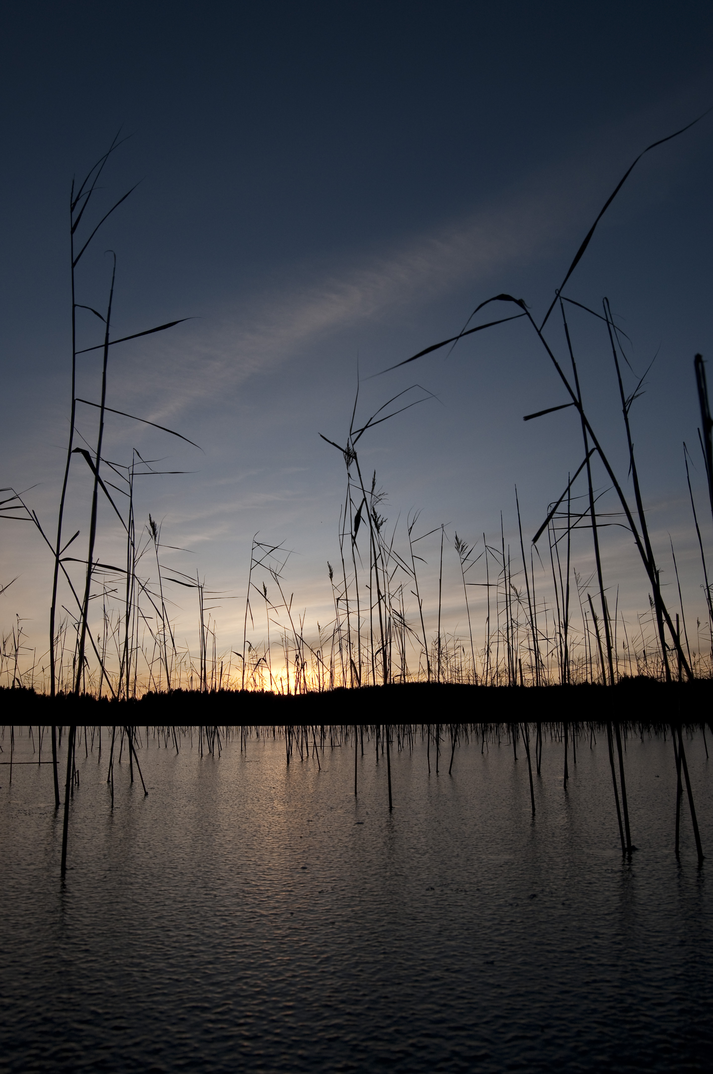 Ändsjön. Nature reserve in frösön, Jämtlands county.